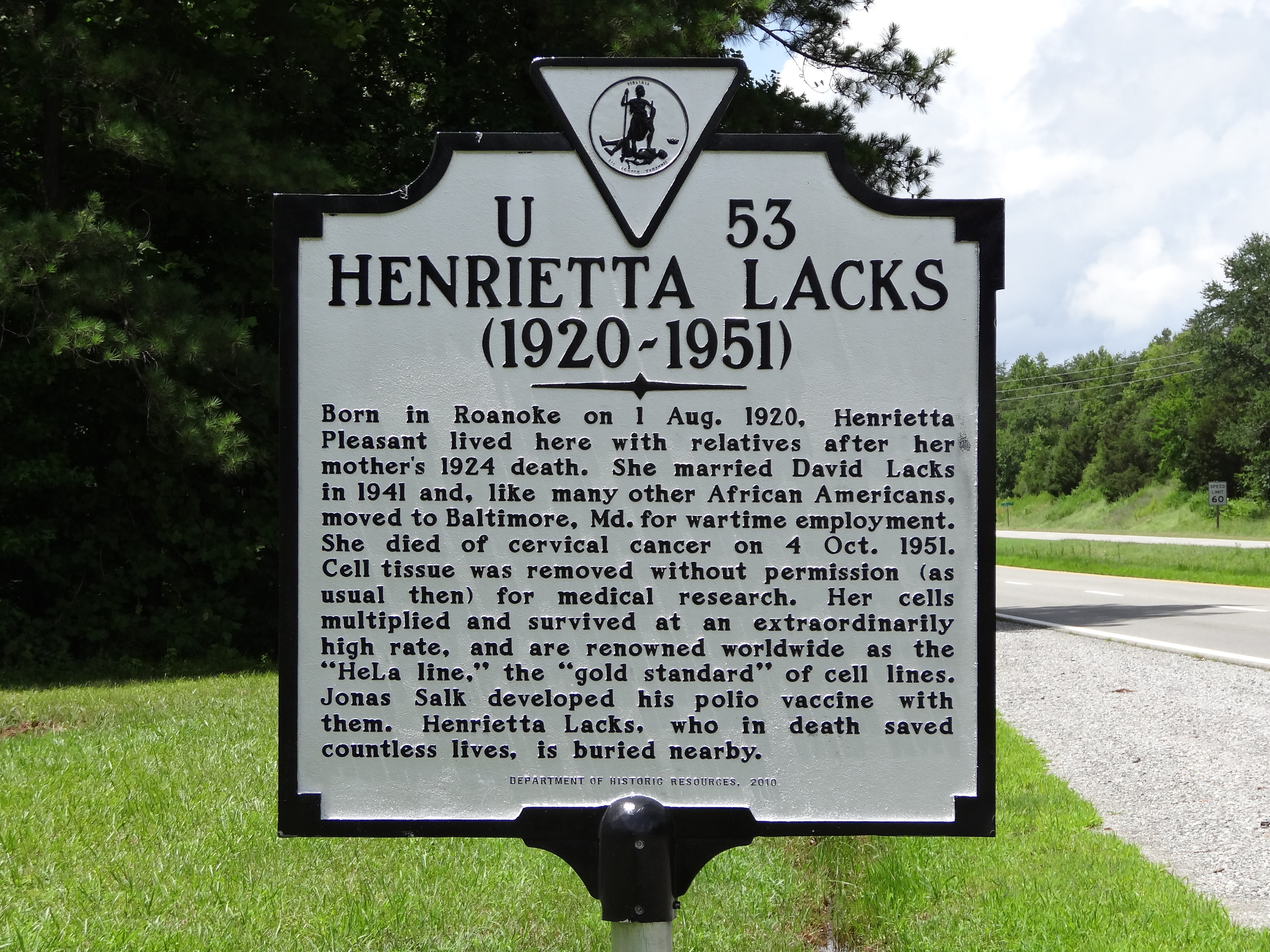 Henrietta Lacks historical marker, located about 15 meters west of the intersection of James D. Hagood Highway (US 360) and Clover Road (SR 92)/Guill Town Road (SR 720). It reads: U53 HENRIETTA LACKS (1920 - 1951) Born in Roanoke on 1 Aug. 1920, Henrietta Pleasant lived here with relatives after her mother's 1924 death. She married David Lacks in 1941 and, like many other African Americans, moved to Baltimore, Md. for wartime employment. She died of cervical cancer on 4 Oct. 1951. Cell tissue was removed without permission (as usual then) for medical research. Her cells multipled and survived at an extraordinarily high rate, and are renowned worldwide as the "HeLa line," the "gold standard" of cell lines. Jonas Salk developed his polio vaccine with them. Henrietta Lacks, who in death saved countless lives, is buried nearby. Department of Historic Resources, 2010